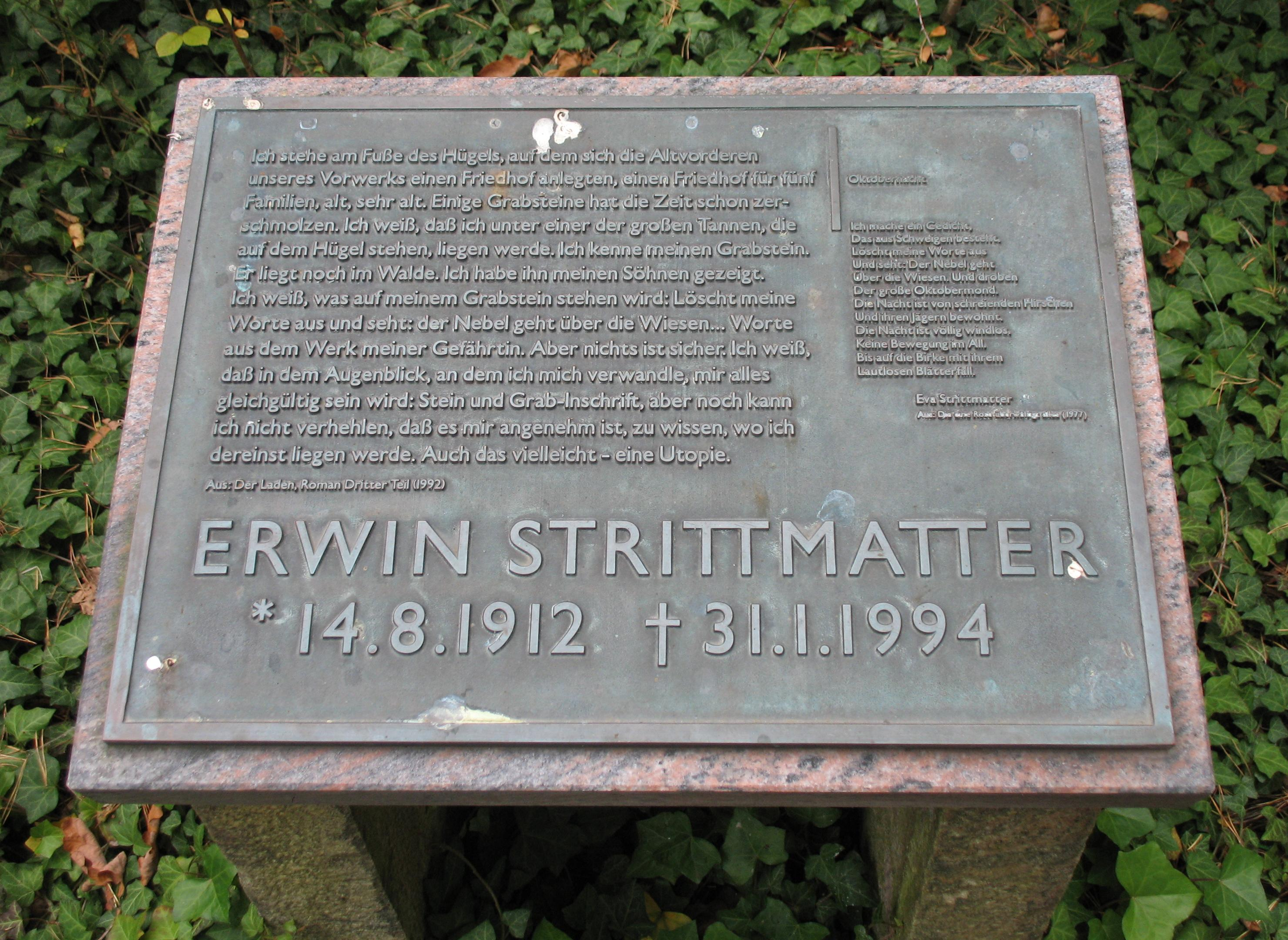 Memorial tablet for Erwin Strittmatter in Dollgow-Schulzenhof (municipality Stechlin) in Brandenburg, Germany